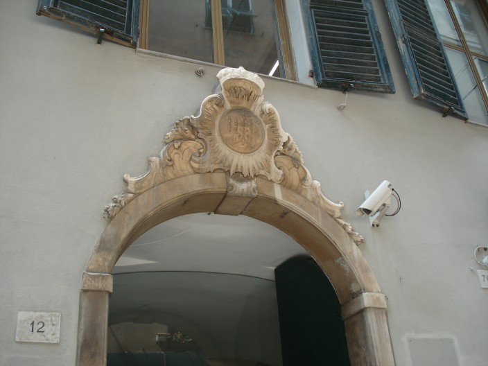 Agostino and Benedetto Viale Palace in Genova